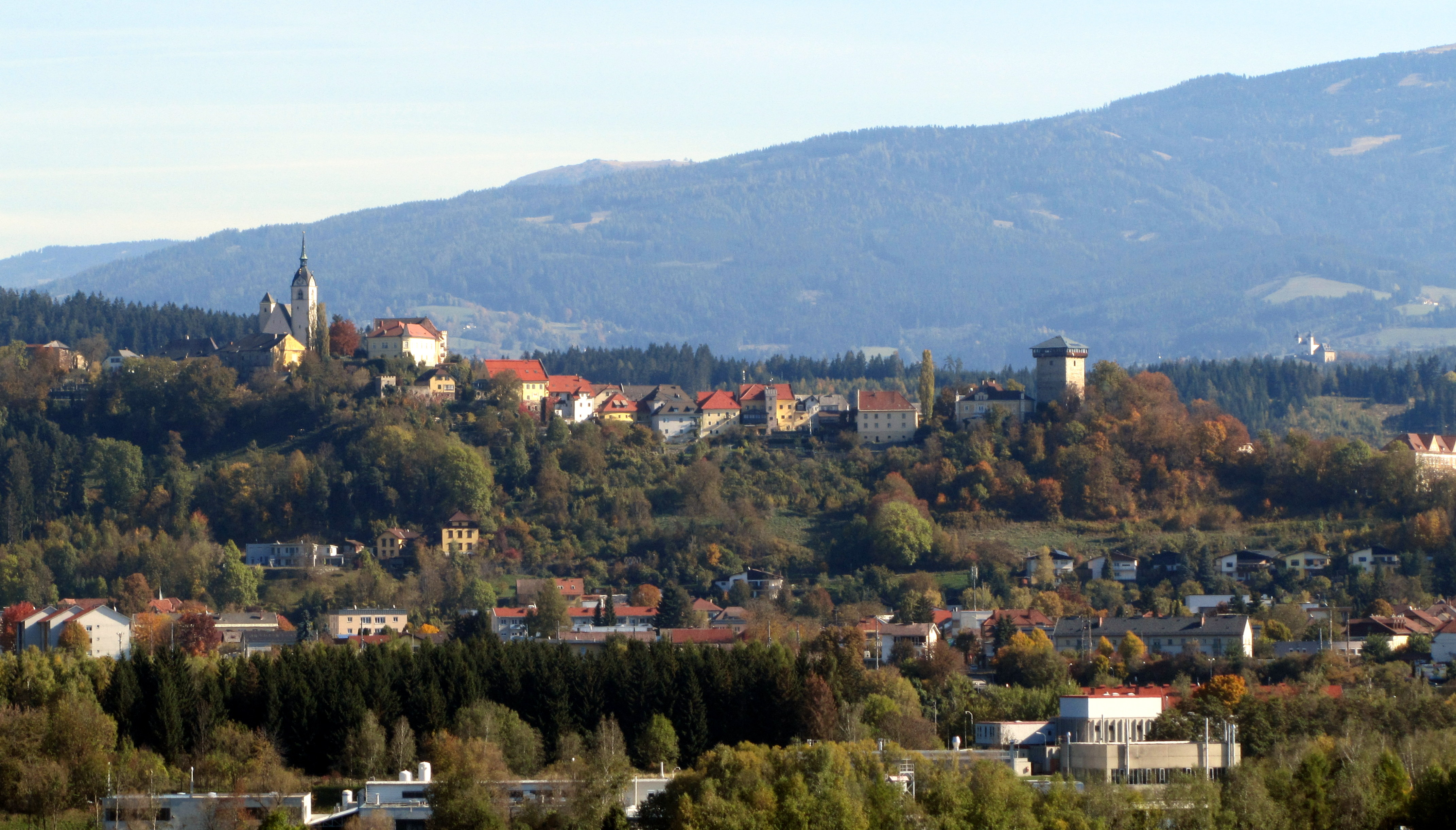 Althofen mit der Wallfahrtskirche Maria Hilf im Hintergrund